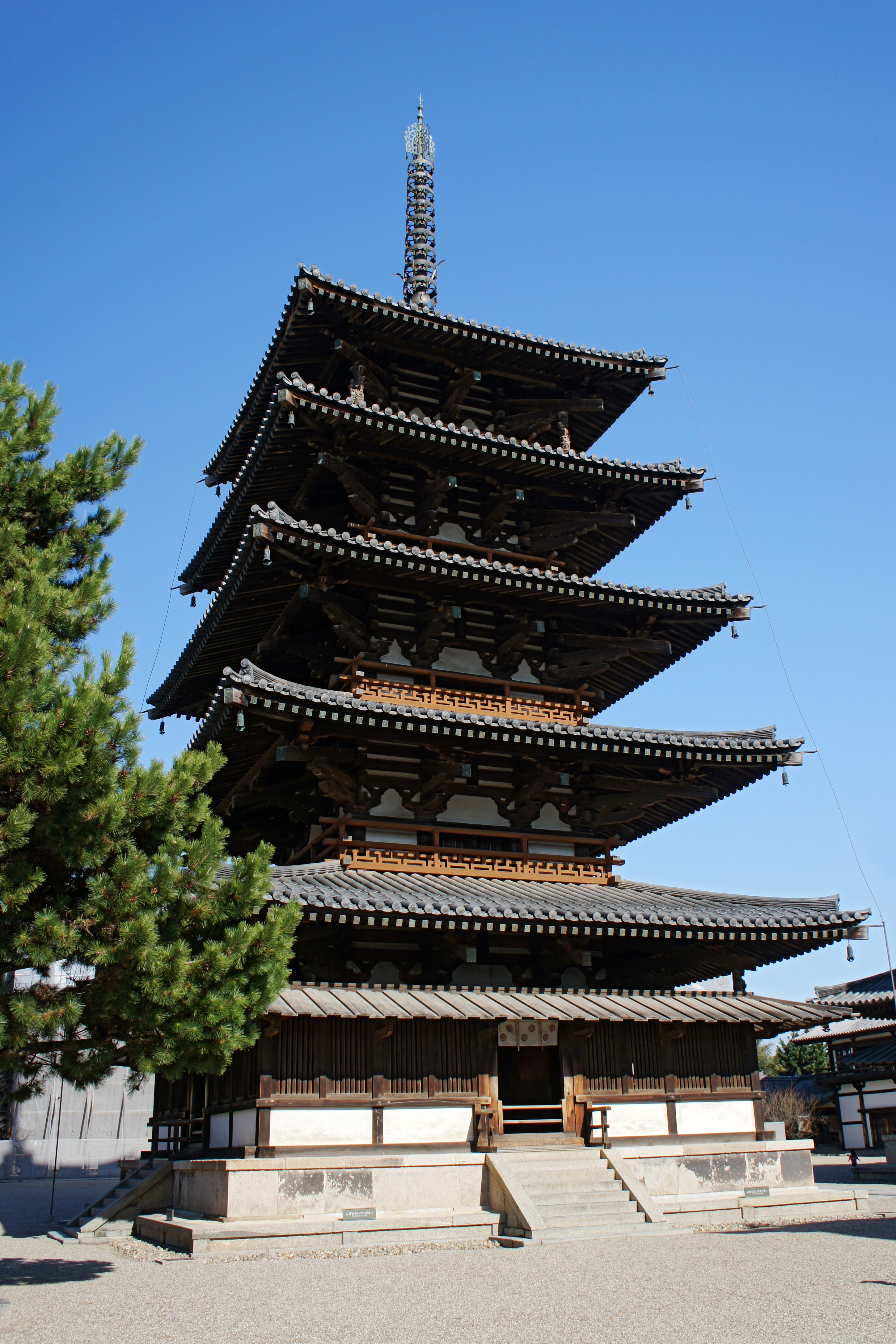 Five-storied Pagoda of Hōryū-ji is a Japan's National Treasure. Hōryū-ji is a Buddhist temple in Ikaruga, Nara prefecture, Japan. It was registered as part of the UNESCO World Heritage Site "Buddhist Monuments in the Hōryū-ji Area".